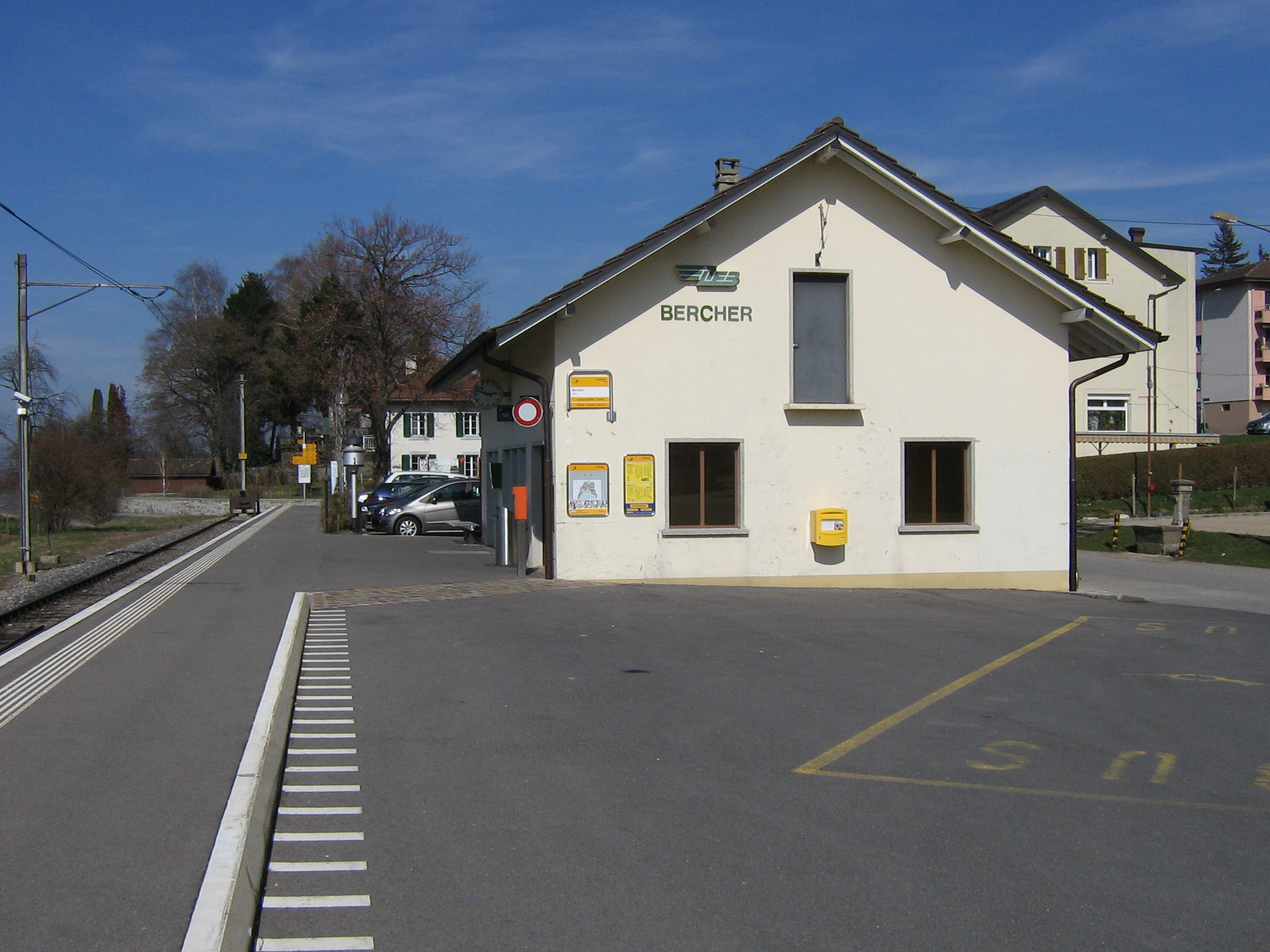 Global view of the terminal station of Bercher.